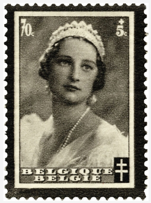 Mourning postage stamp of Belgium, Queen Astrid, 1935, 70+5 centimes, scott#B174.